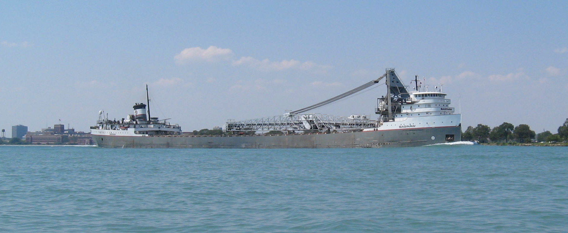 Saginaw upbound at Belle Isle